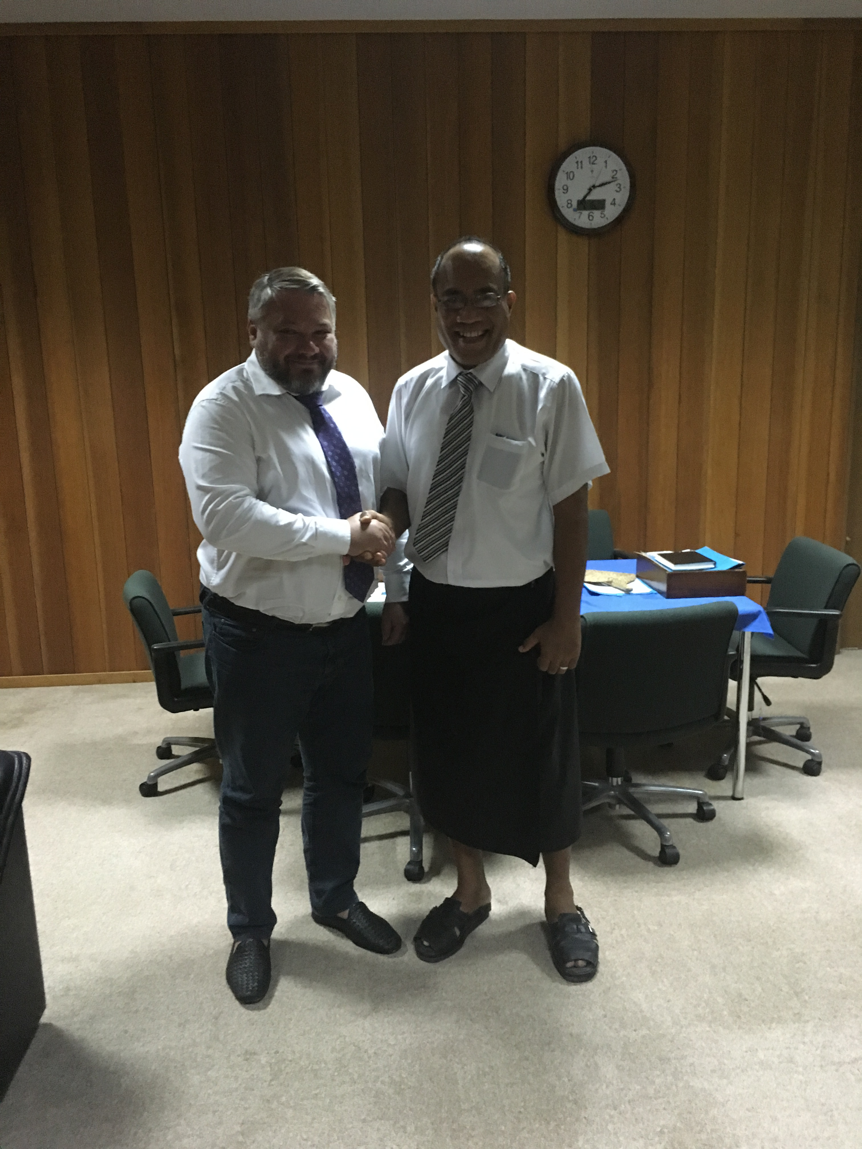 Anton Bakov and Taneti Mamau